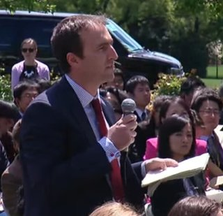 Journalist Andrew Beatty asks the first question during a joint press conference with U.S. President Barack Obama and Japanese Prime Minister Shinzo Abe in the White House Rose Garden on April 28, 2015.